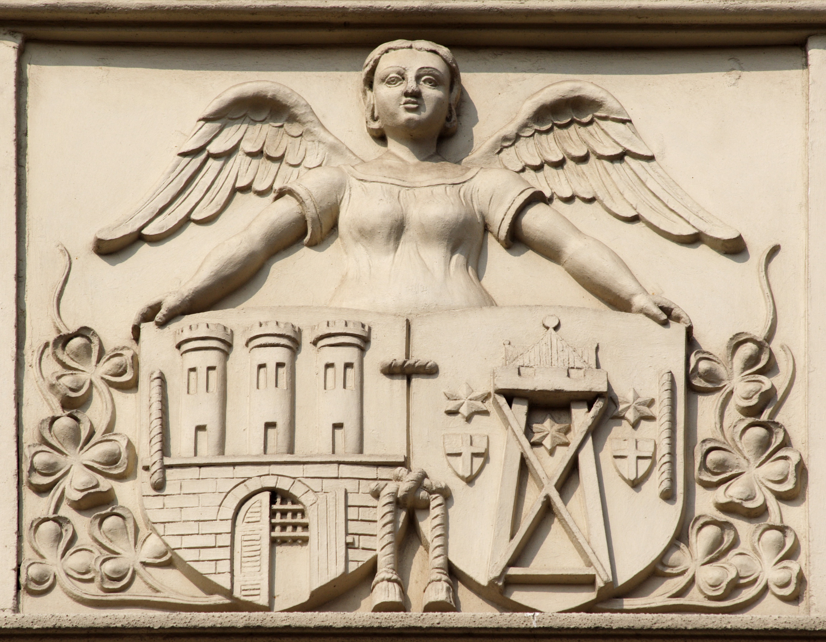 Coats of arms of Stare Miasto and Nowe Miasto of Toruń on the facade of house at 4 Św. Katarzyny Str.